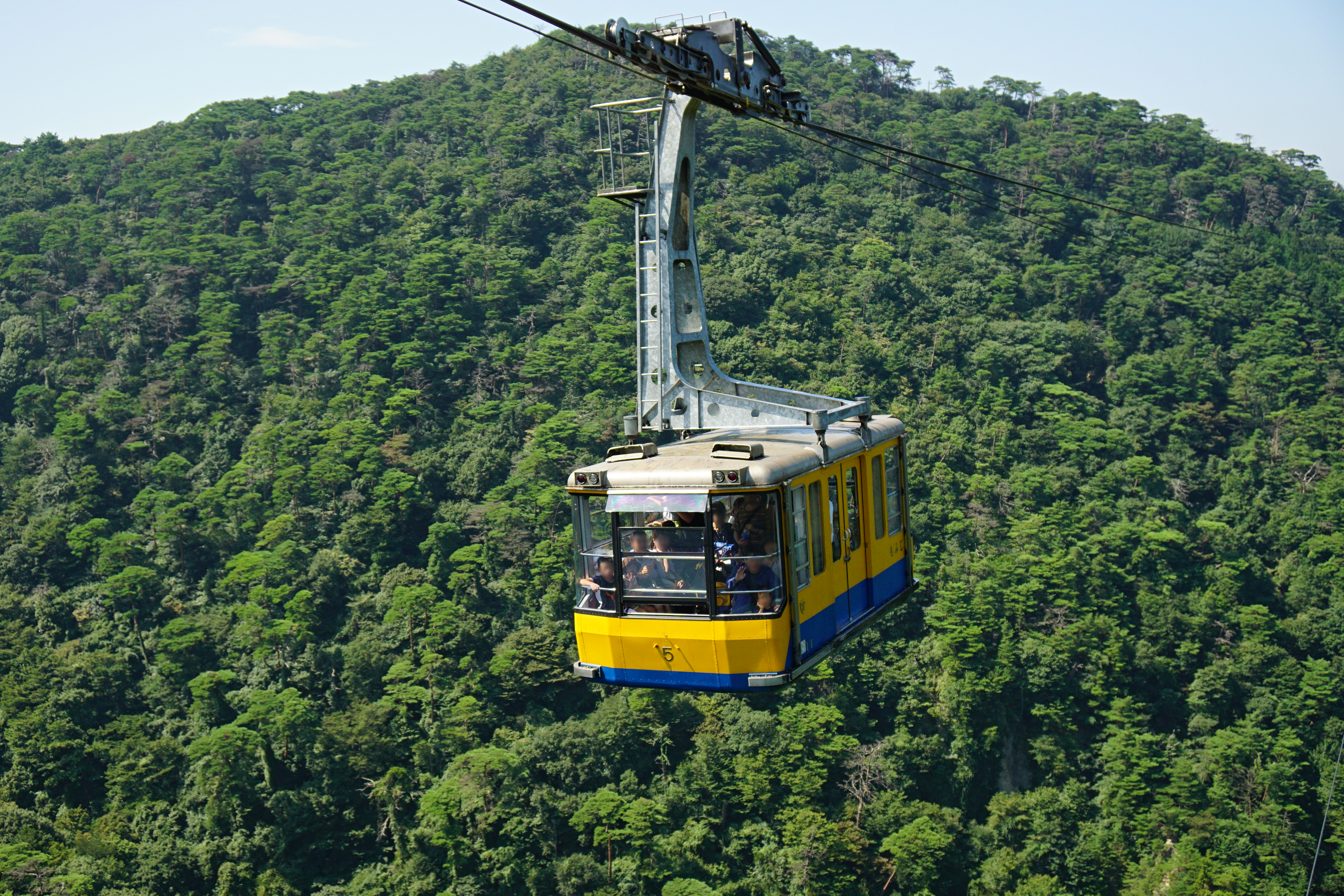 Rokkō Arima Ropeway in Kobe Hyogo prefecture, Japan